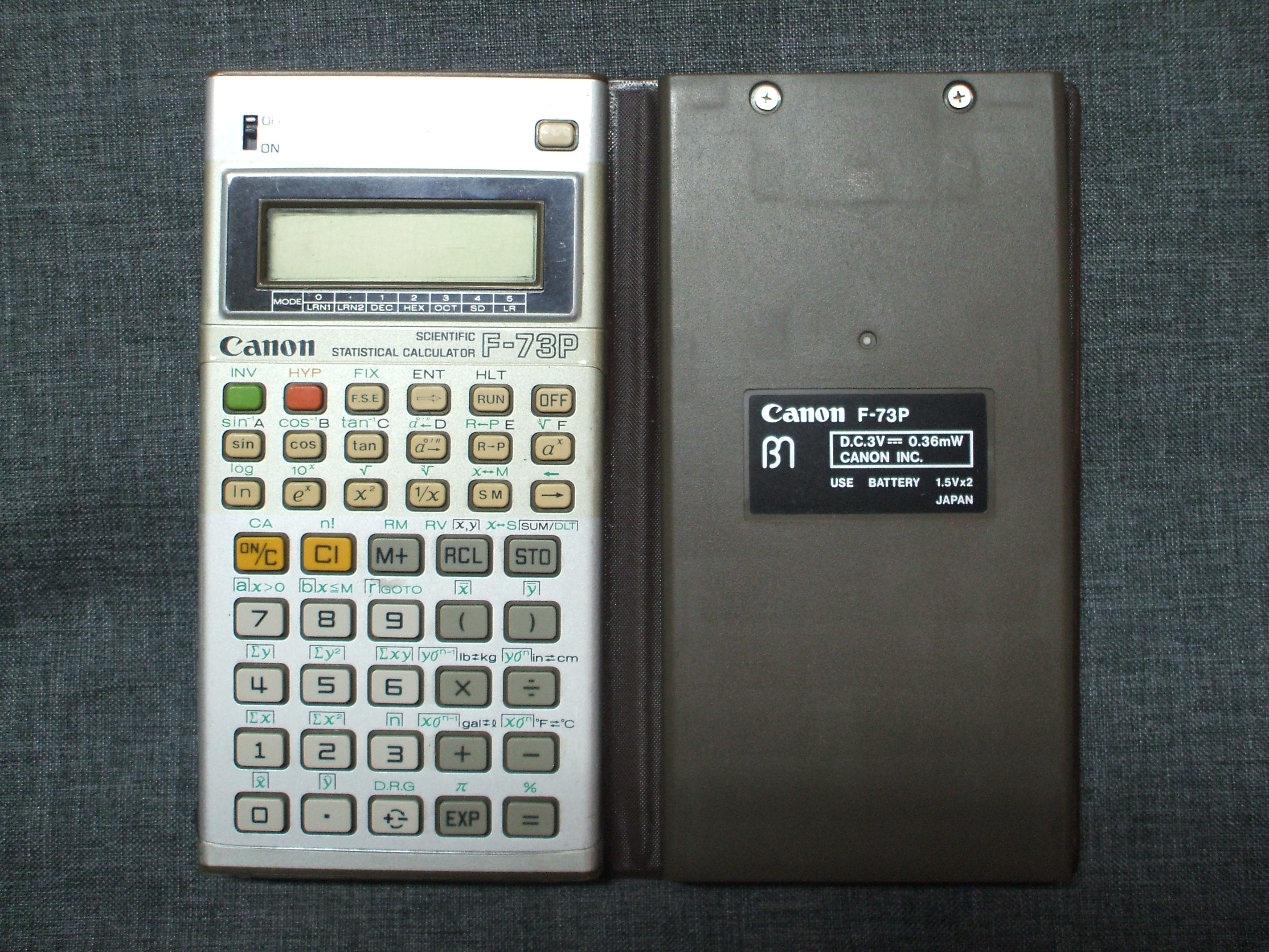 Canon F-73P programmable calculator